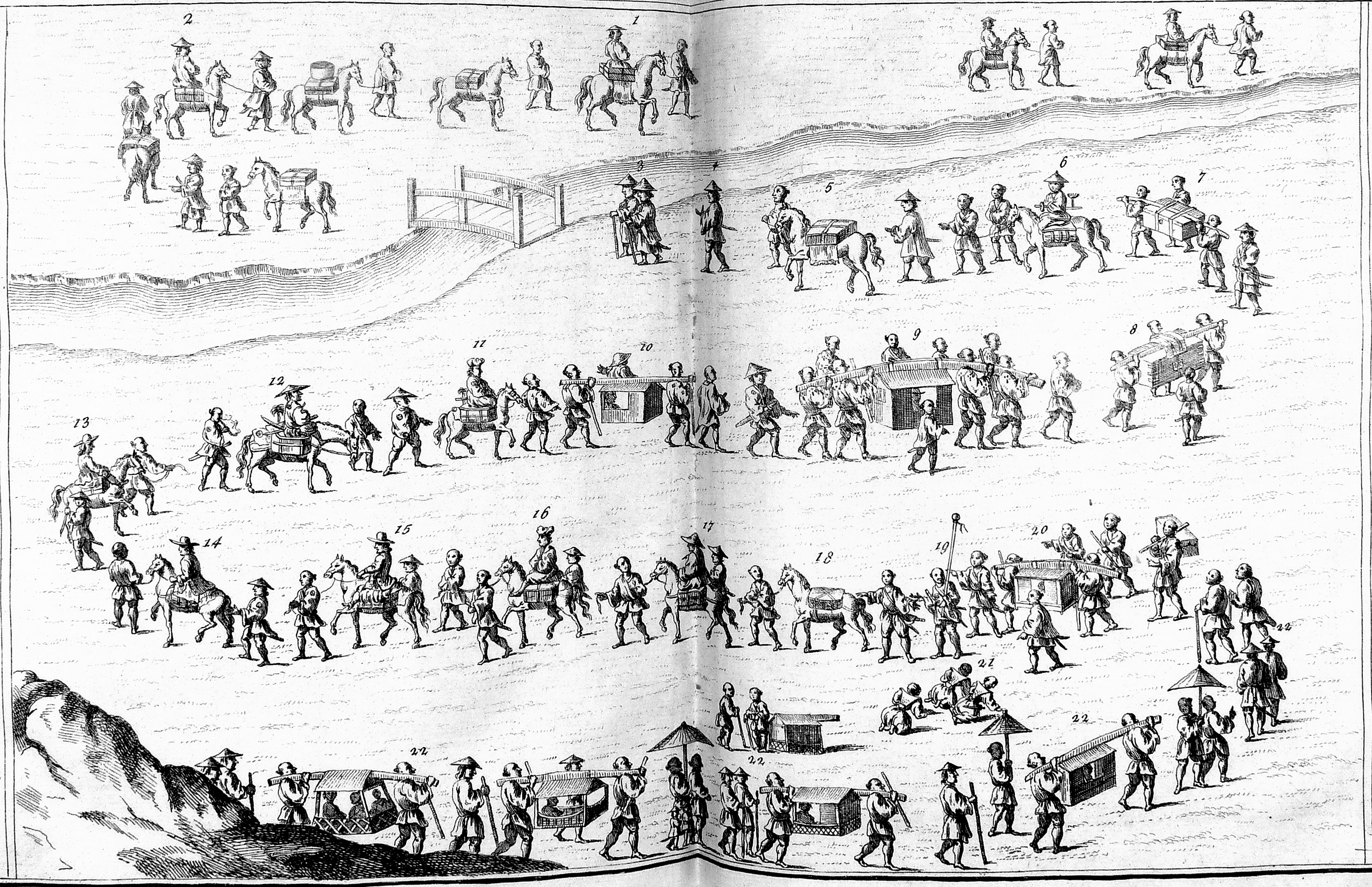 Procession of the Dutch "opperhoofd" (trading-post chief) of Dejima and his entourage on their way to Edo to pay their respects to the Shogun